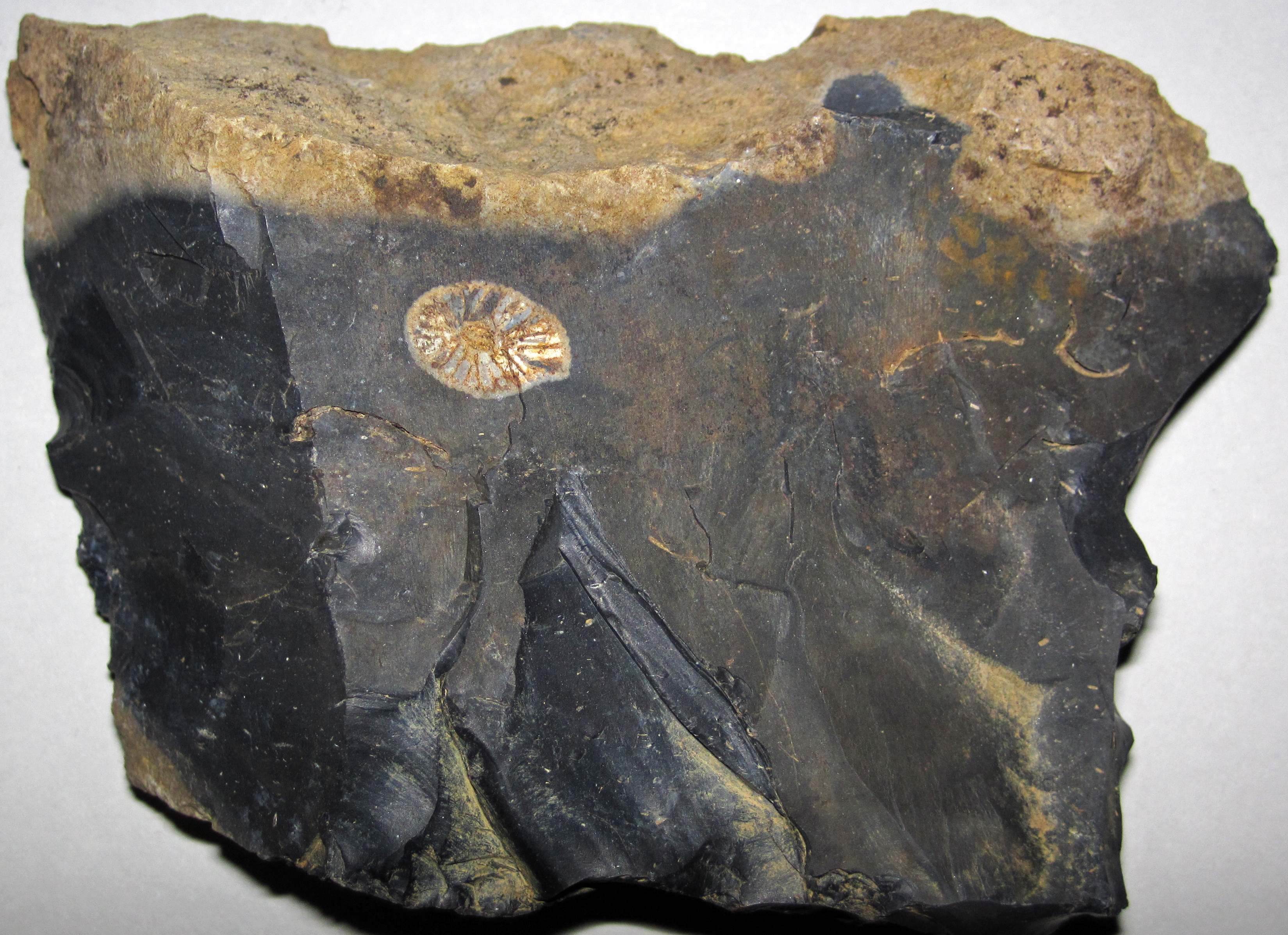 Fossiliferous flint (chert) from the Pennsylvanian of Ohio, USA. (9.5 cm across at its widest) "Flint" is the official gemstone of Ohio. Flint is actually chert (the two terms are synonymous, despite what anyone else might say), a cryptocrystalline, quartzose sedimentary rock. High-quality, colorful, multicolored, and multipatterned flint is moderately common at some Ohio localities. A couple famous flint occurrences in east-central Ohio include the Vanport Flint at Flint Ridge and Nellie Blue Flint in Coshocton County. The rock shown above is from the Upper Mercer Flint, a somewhat persistent horizon of chertified marine fossiliferous limestone in east-central and eastern Ohio called the Upper Mercer Limestone. The Upper Mercer is usually a black flint with whitish speckles (= often body fossils and fossil fragments). This sample has a fossil solitary rugose coral exposed in transverse cross-section. The light-colored rind at top is non-chertified Upper Mercer - in other words, limestone. Classification: Animalia, Cnidaria, Anthozoa, Rugosa Stratigraphy: Upper Mercer Flint (= chertified Upper Mercer Limestone), upper Bedford Cyclothem, upper Pottsville Group, Atokan Series, lower Middle Pennsylvanian Locality: Nellie West Outcrop, western Jefferson Township, western Coshocton County, east-central Ohio, USA